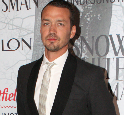 Rupert Sanders at the Snow White and the Huntsman movie premiere in Sydney, Australia.